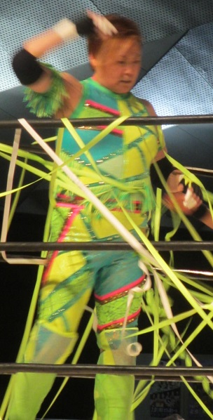 Japanese professional wrestler,Dynamite Kansai. Apr 9 2016, OZ Academy Yokohama International Passenger Terminal Hall.